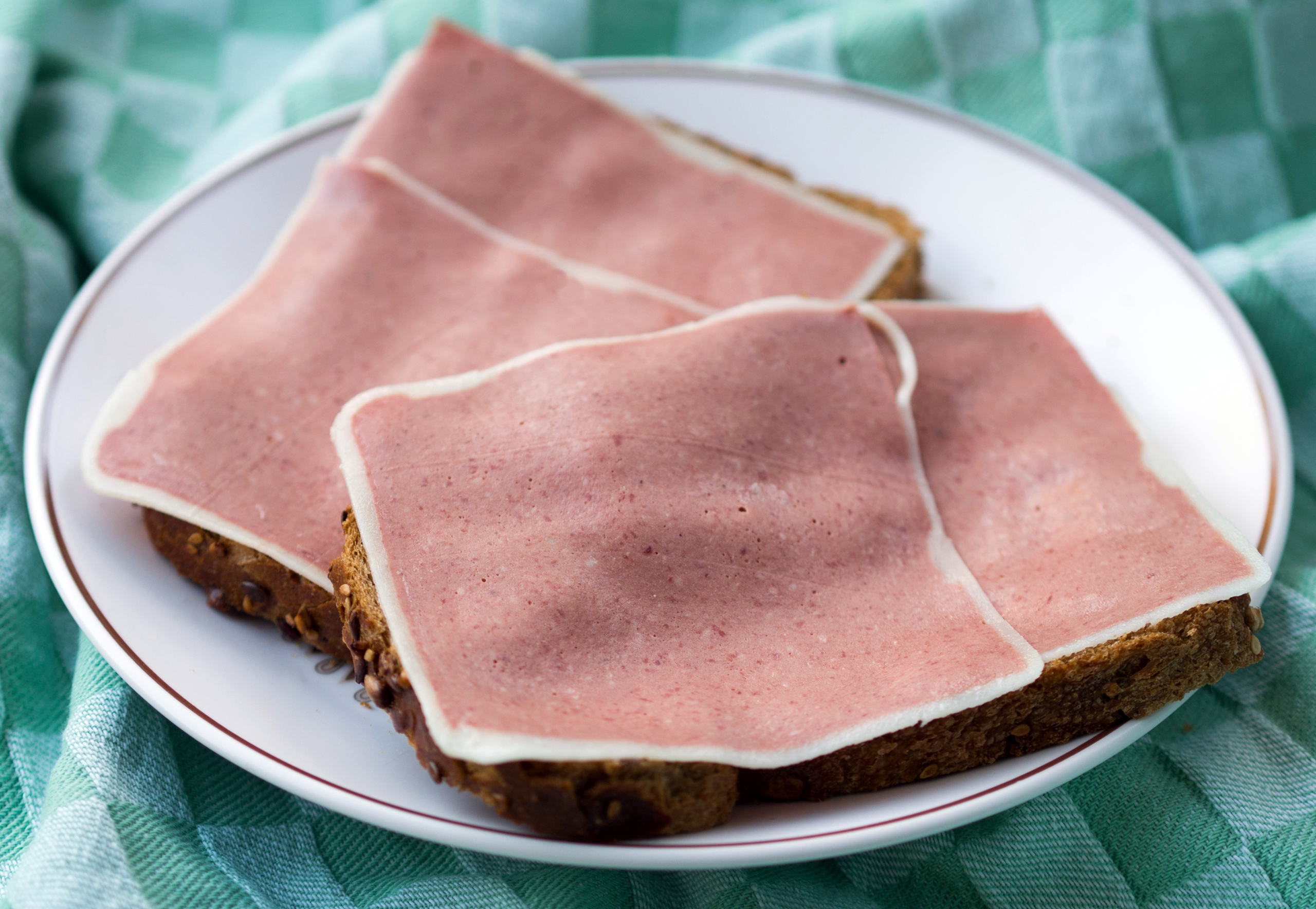 Leverkaas (lit. "liver cheese") is a Dutch cold cut, generally eaten with bread. It is similar in taste and consistency to liverwurst.